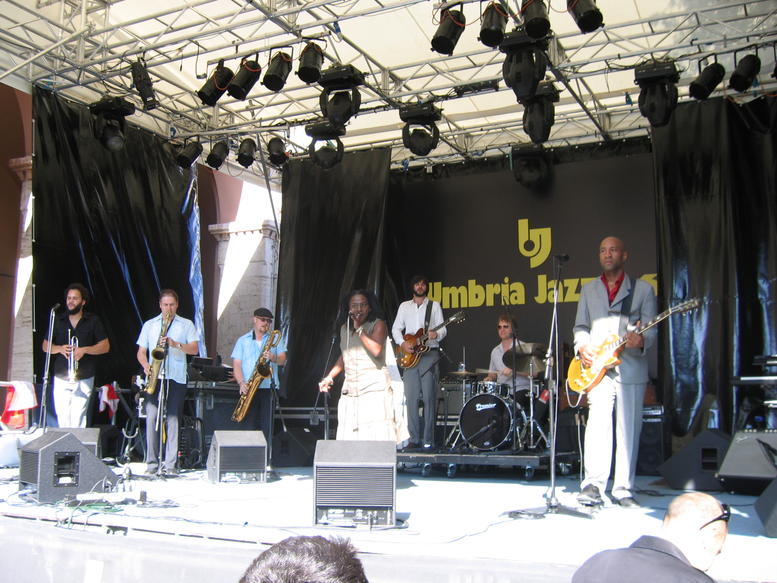 Sharon Jones and the Dap Kings performing live at Umbria Jazz 06, Perugia, Italy, 16 july 2006.